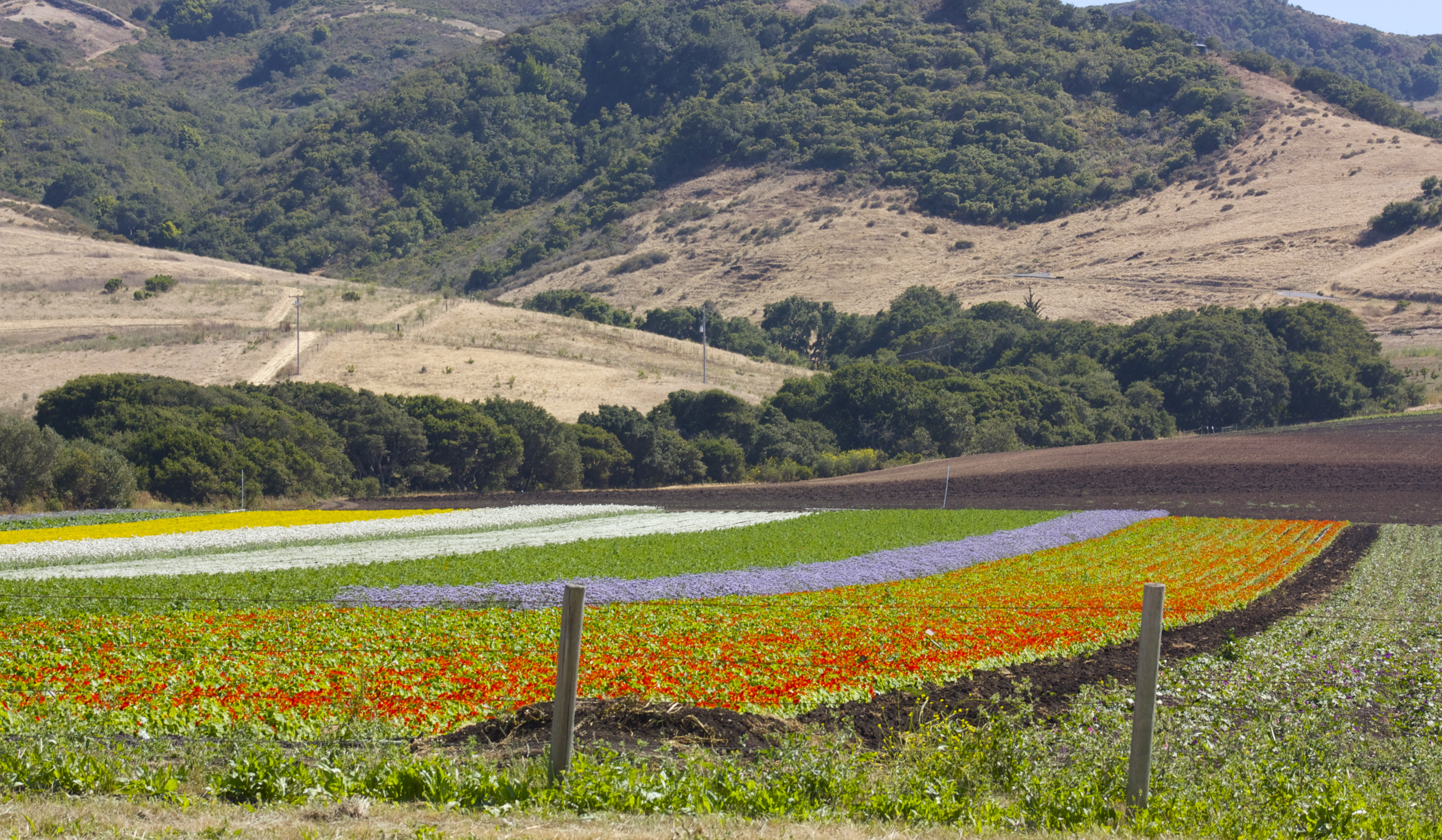 Flower fields on Los Osos Valley Road. Located in San Luis Obispo County, central California.